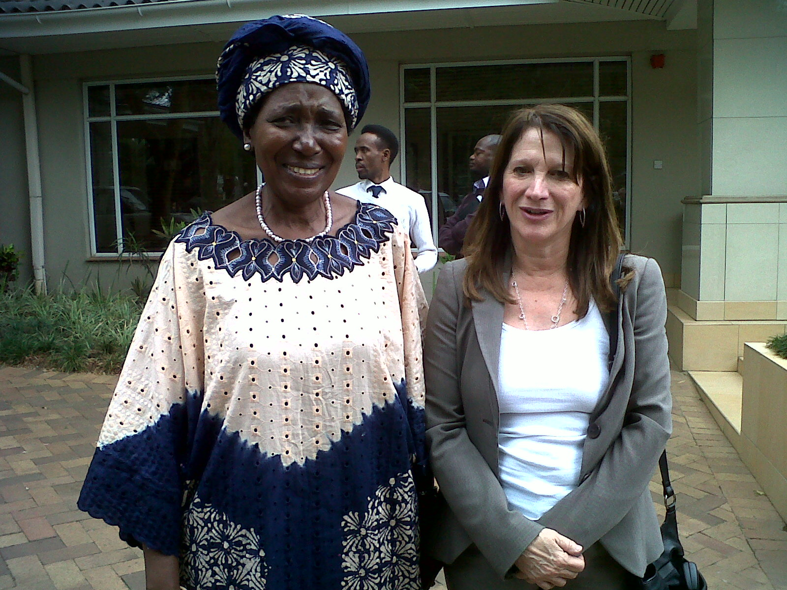 International Development Minister Lynne Featherstone launches 16 days of activism for the elimination of violence against women with the Minister of Gender and Child Development, Inonge Wina MP, in Zambia on Wednesday, 28 November 2012. Zambia ranks 131 out of 146 countries in the Gender Inequality Index. Seats held by women in parliament have decreased from 14% in 2008 to 11% in 2011 - and only 6% of local councillors are women. In the last year, there have been encouraging signs of growing government commitment to gender equality though with the previous Gender in Development Division (GIDD) becoming a fully-fledged ministry - the Ministry of Gender and Child Development (MGCD). UK aid is supporting programmes in Zambia to eliminate violence against women and girls, including the Stamping Out and Prevention of Gender-based Violence inititative (STOP-GBV). This includes a one stop shop in which victims can access medical, psycho-social and legal support, as well as working on prevention and advocacy. Follow the visit to Zambia Follow Lynne Featherstone's visit in Zambia on her blog for the Huffington Post UK with live updates on Twitter @DFID_UK and @lfeatherstone. Terms of use This image is posted under a Creative Commons - Attribution Licence, in accordance with the Open Government Licence. You are free to embed, download or otherwise re-use it, as long as you credit the source as 'Emily Travis/DFID'. '